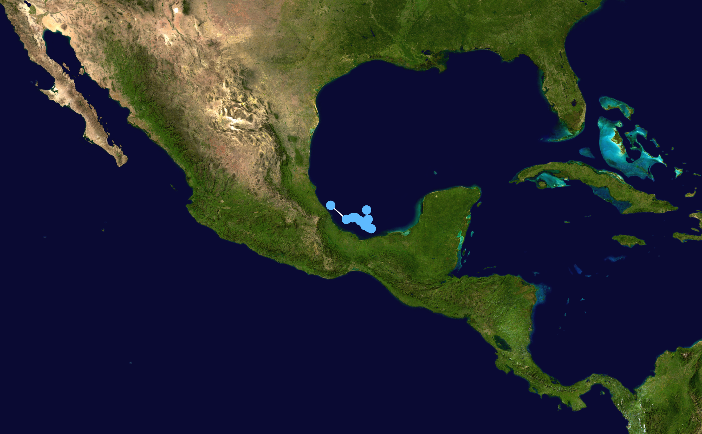 Track map of Tropical Depression Eleven of the 1999 Atlantic hurricane season. The points show the location of the storm at 6-hour intervals. The colour represents the storm's maximum sustained wind speeds as classified in the Saffir–Simpson scale (see below), and the shape of the data points represent the nature of the storm, according to the legend below. Saffir–Simpson scale Tropical depression≤38 mph≤62 km/h Category 3111–129 mph178–208 km/h Tropical storm39–73 mph63–118 km/h Category 4130–156 mph209–251 km/h Category 174–95 mph119–153 km/h Category 5≥157 mph≥252 km/h Category 296–110 mph154–177 km/h Unknown Storm type Tropical cyclone Subtropical cyclone Extratropical cyclone / Remnant low / Tropical disturbance / Monsoon depression